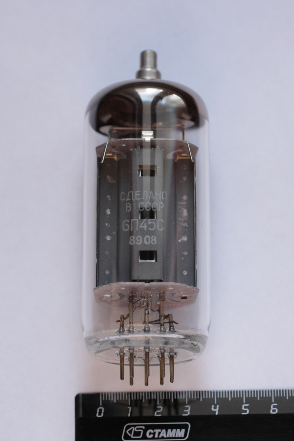 6P45S vacuum tube, USSR